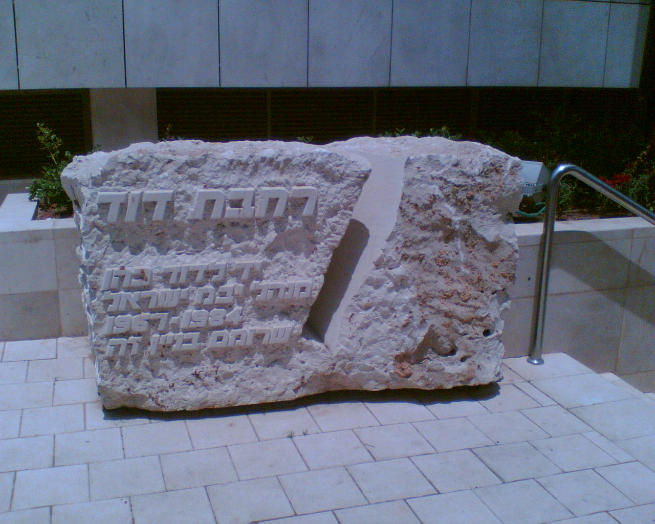 David Cohen memorial, in front of IBM Building, Tel Aviv